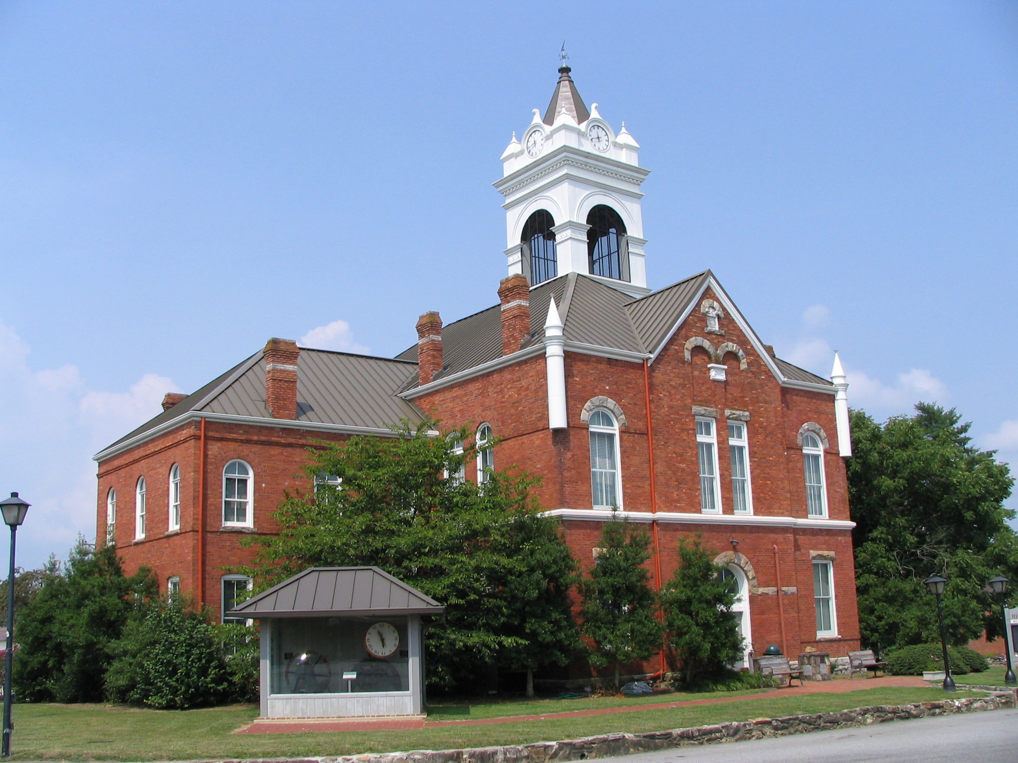 Union County courthouse in Blairsville, Georgia